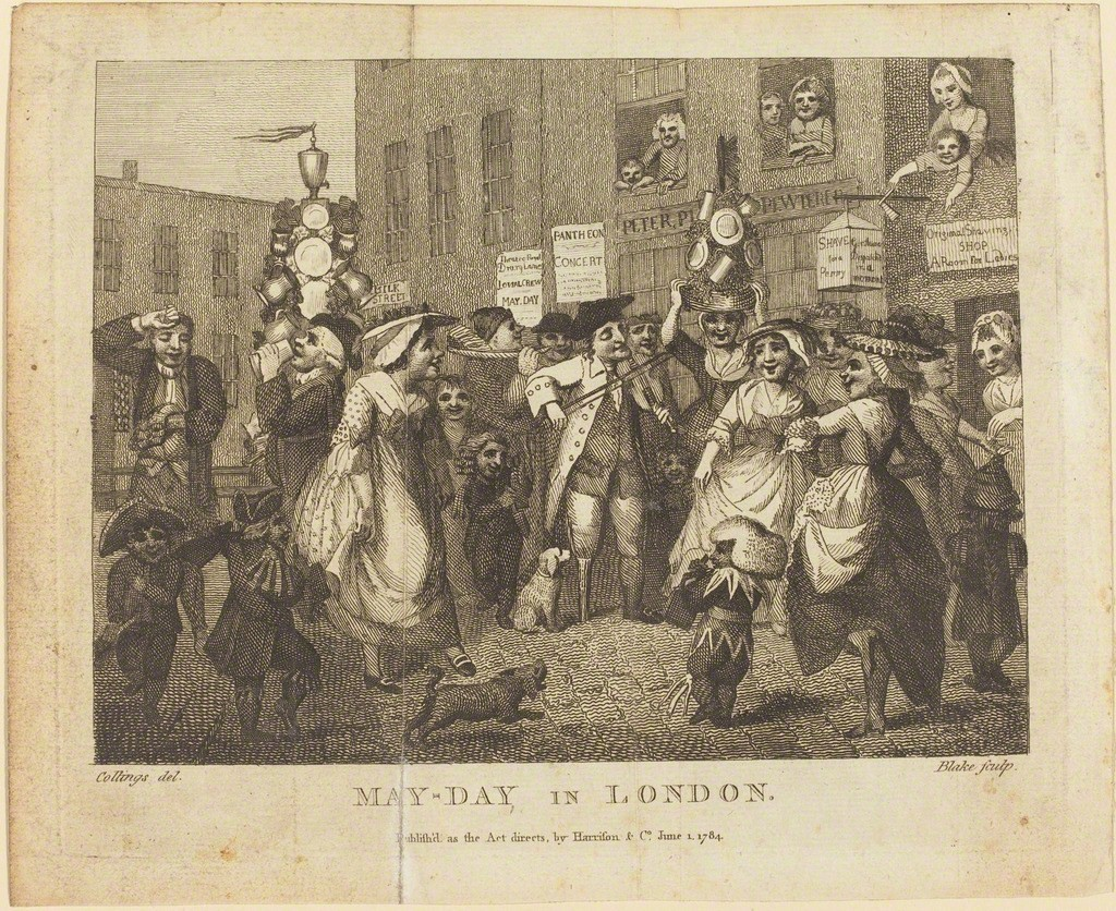 William Blake Samuel Collings 1784 May-Day in London, 1784 Engraving Courtesy National Gallery of Art, Washington National Gallery of Art, Washington D.C.